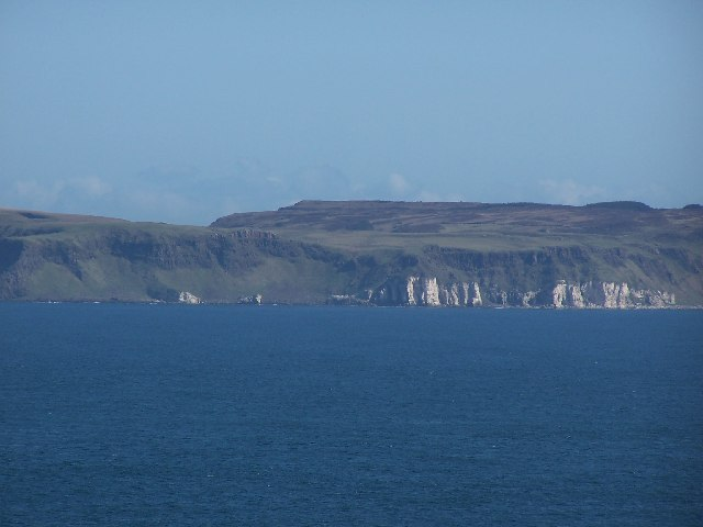 Rathlin island.